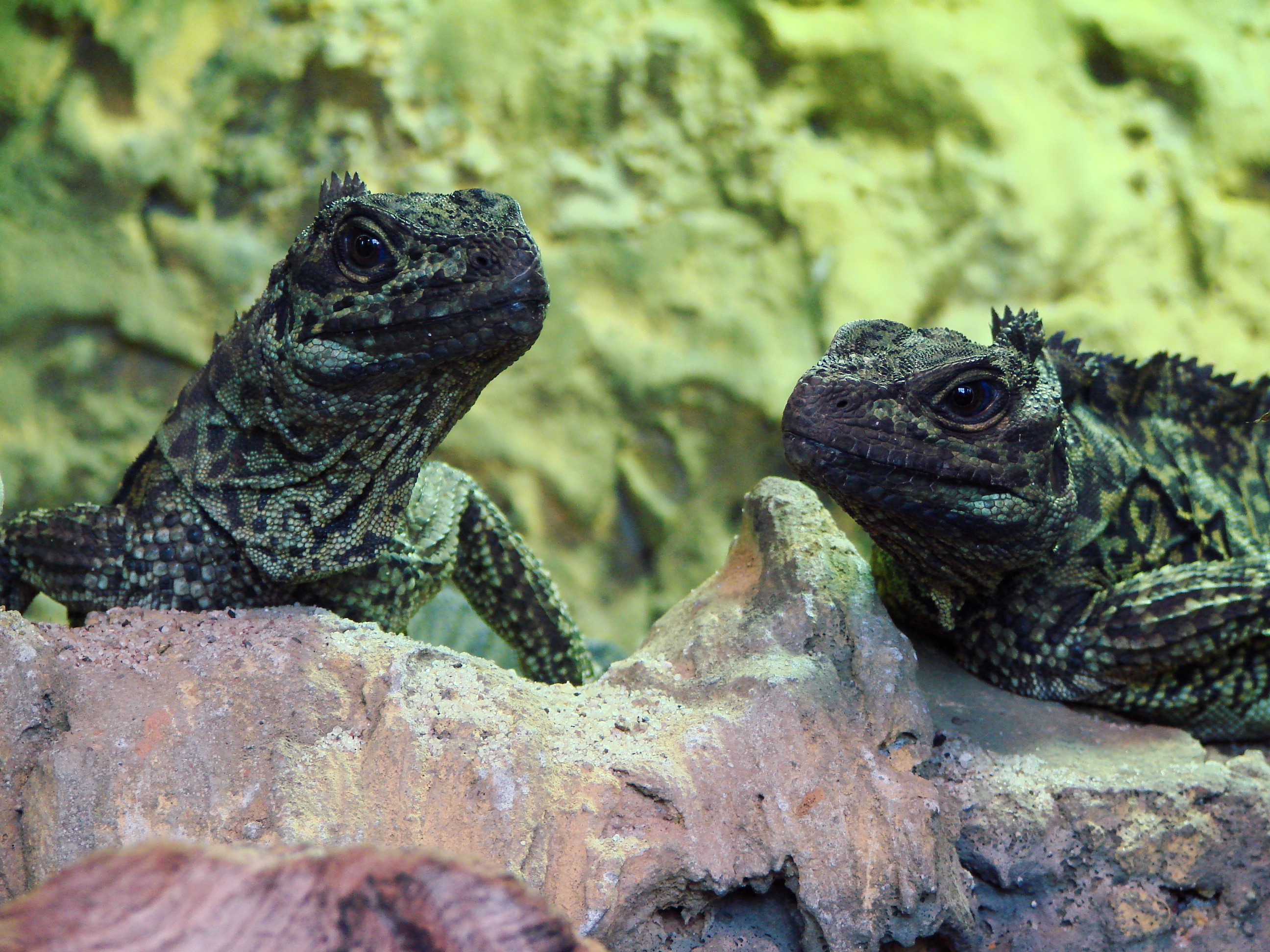 Picture taken in the zoo of Wrocław (Poland): Hydrosaurus amboinensis (Schlosser, 1768)